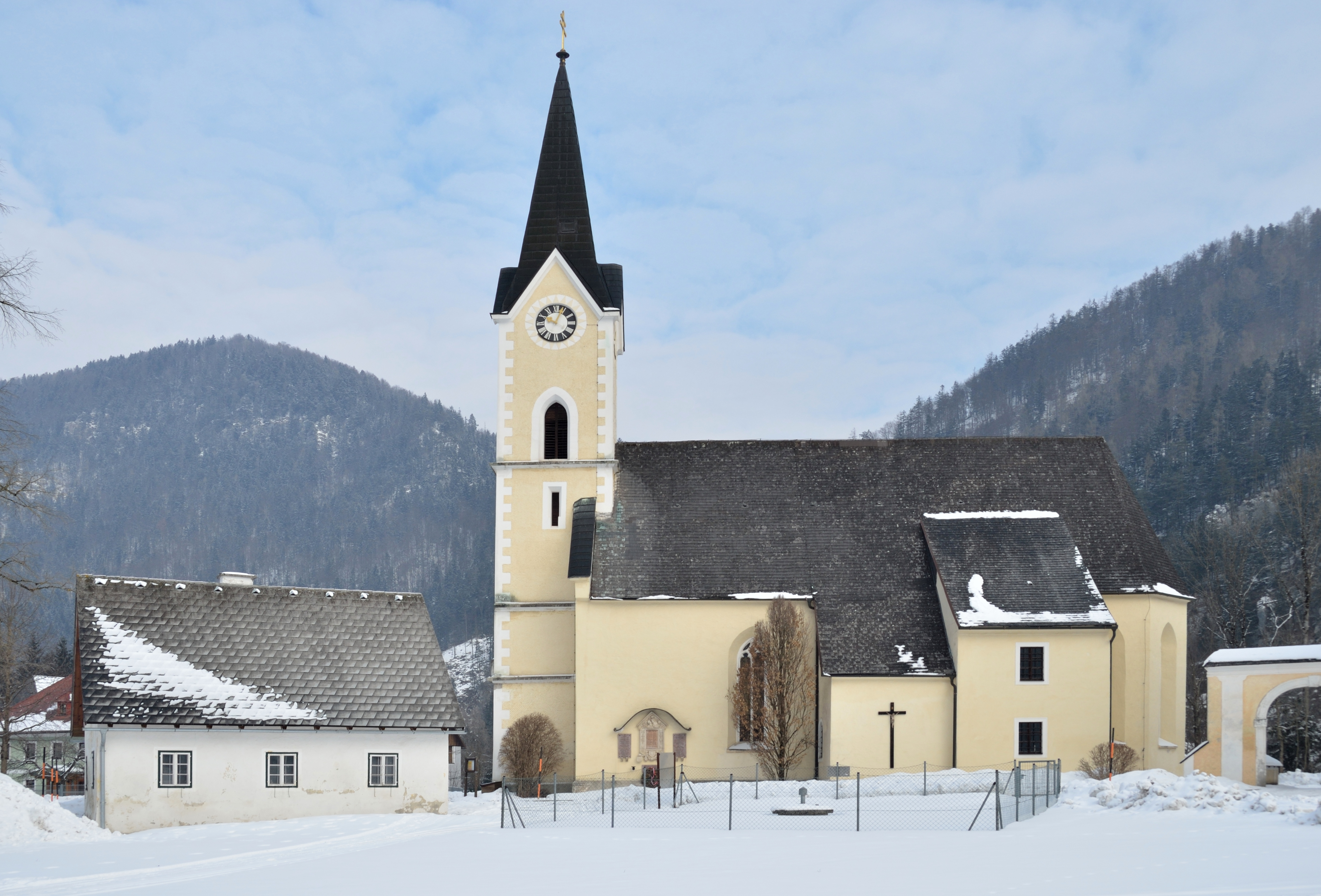 Parish church Saint Pankraz and at the left the former sacristan house in St. Pankraz, Upper Austria. Both buildings protected as cultural heritage monuments.